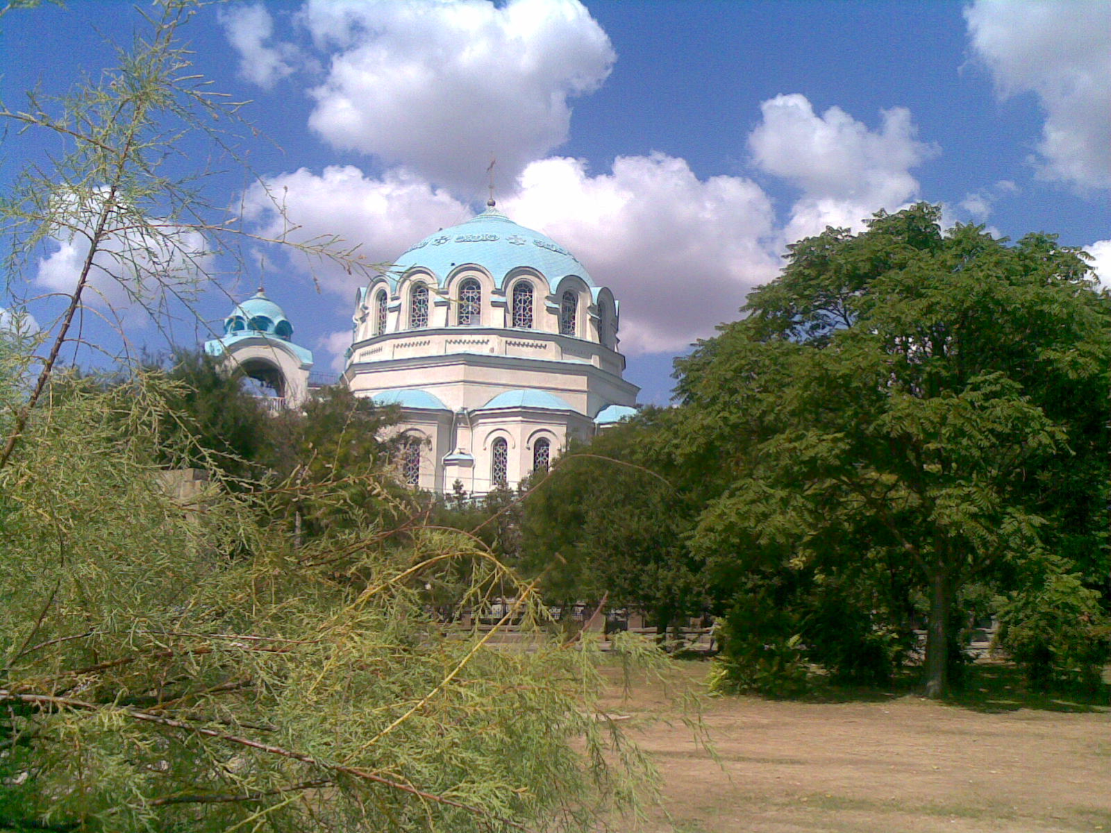 Christian Orthodox Church in Eupatoria, Crimea, Ukraine